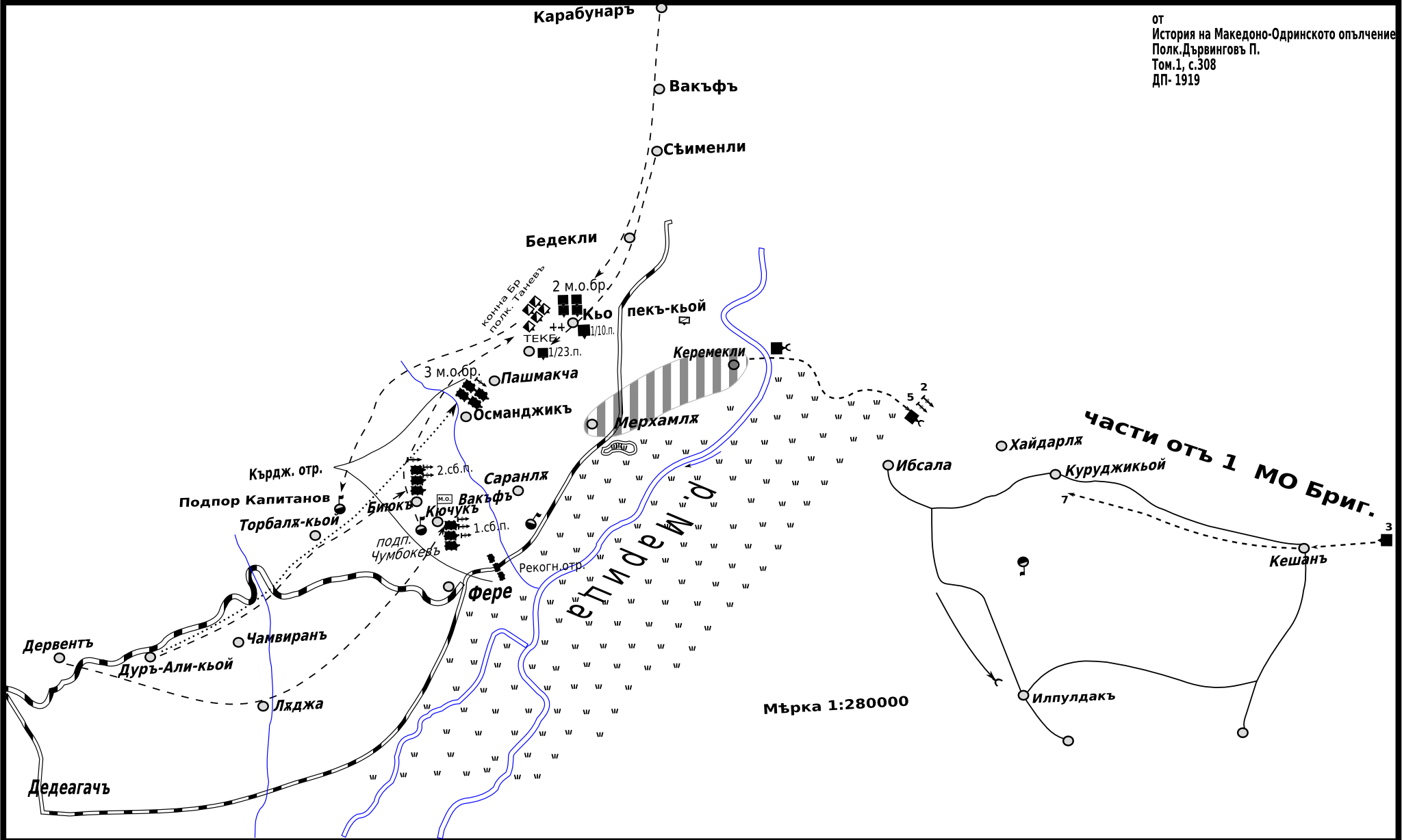 Merhamli-Teke battle